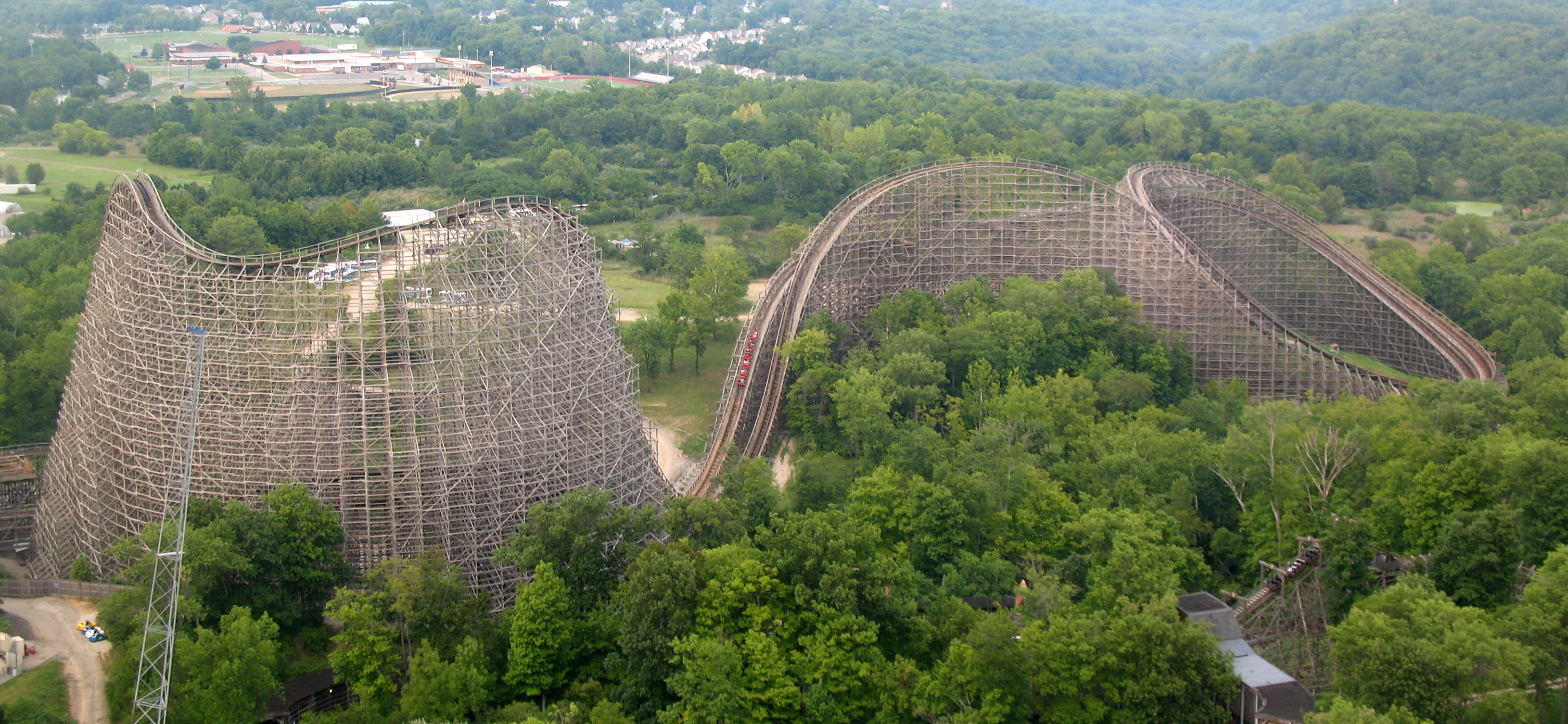 Son of Beast roller coaster at Kings Island. Taken from the park's observation tower.